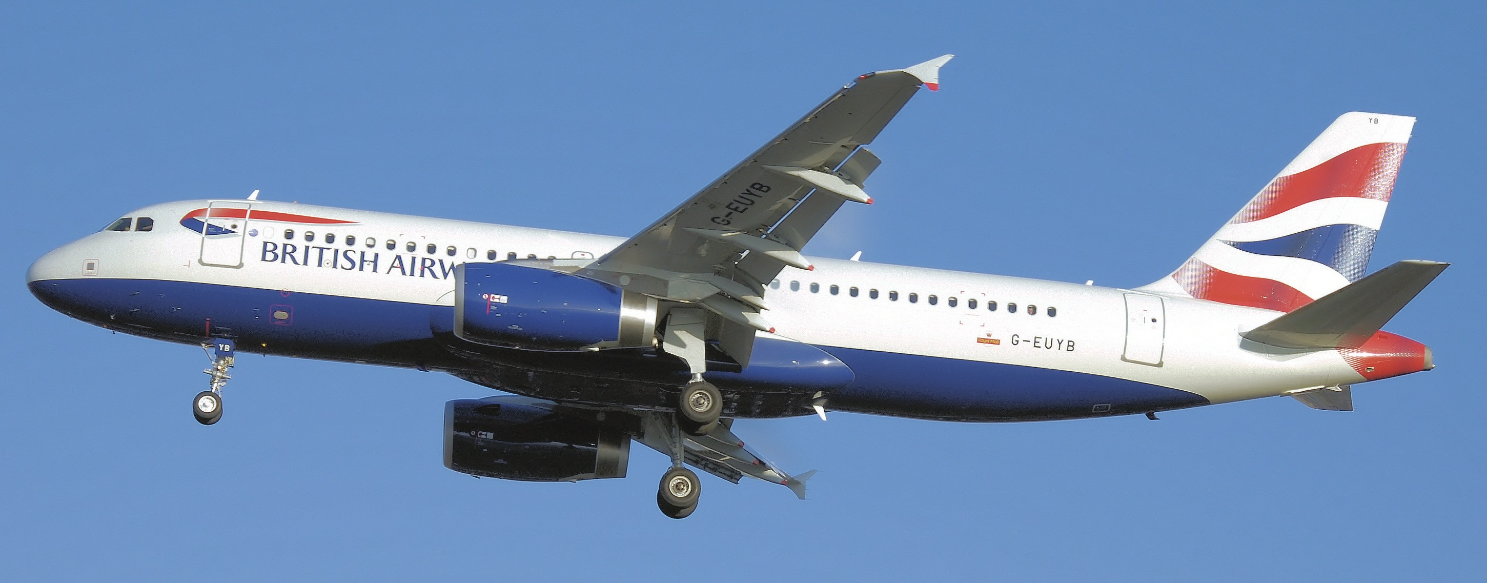 British Airways Airbus A320-200 (G-EUYB) lands at London Heathrow Airport, England.